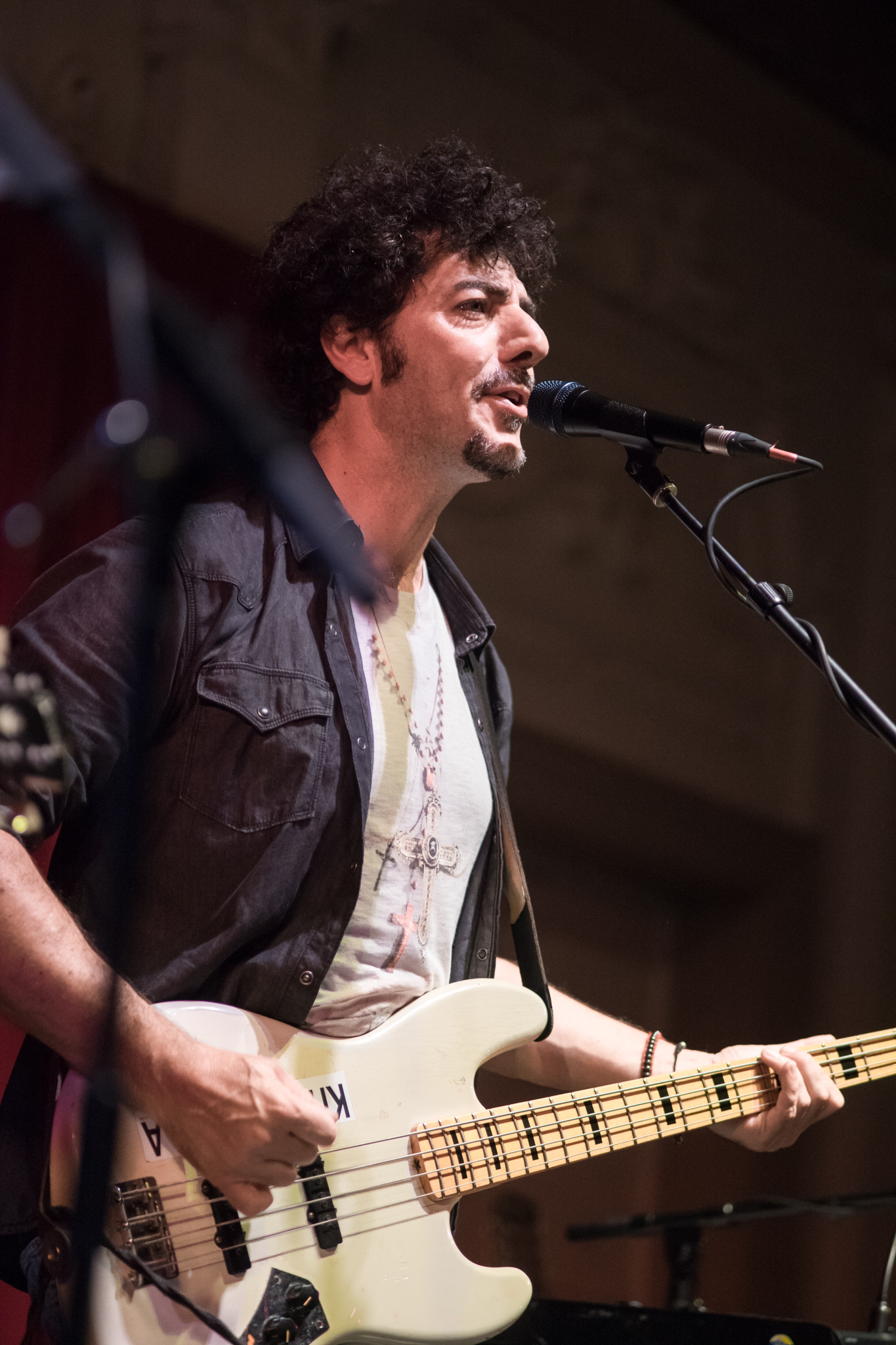 Fabi Silvestri Gazzè live at Bush Hall, London 01/10/2014